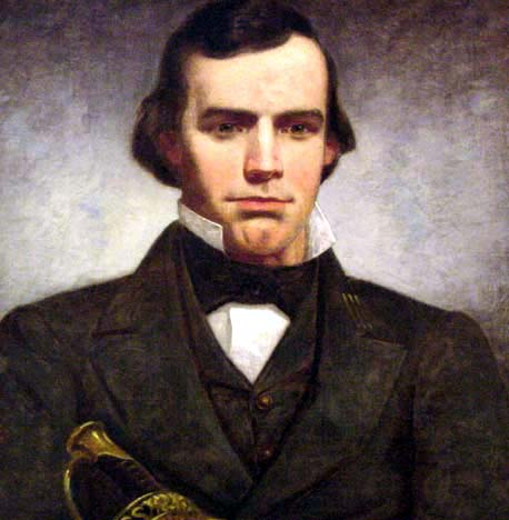 Oil portrait of Civil War officer John Q. Marr, VMI Class of 1846, who was killed in Battle at Fairfax Court House on June 1, 1861, Virginia Military Institute